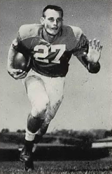 Photograph of University of California, Los Angeles athlete Bob Davenport